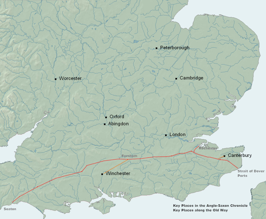 Key Locations in the Anglo-Saxon Chronicle and along the Harrow Way that forms part of the Old Way.